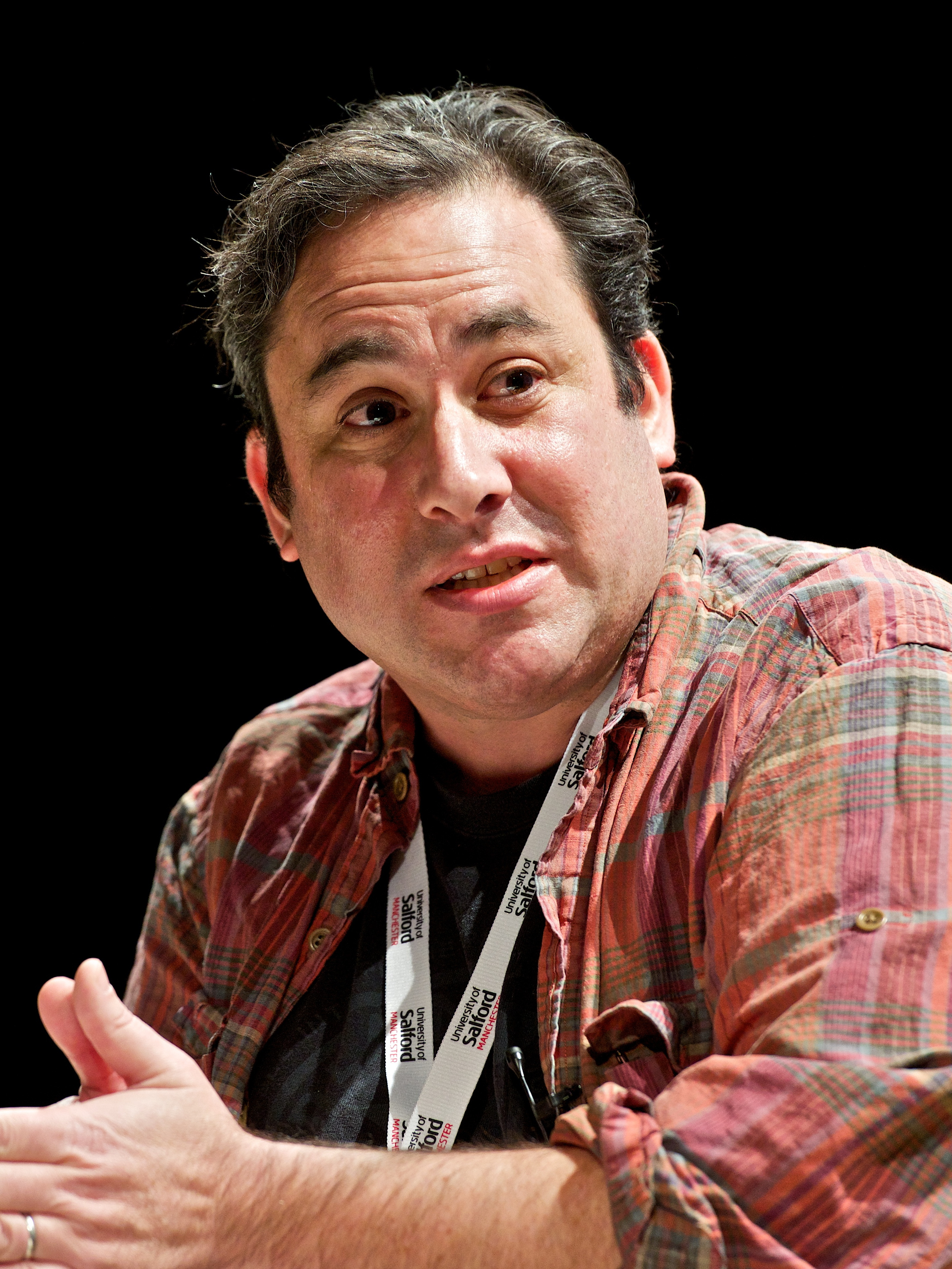 One of the driving forces behind The Simpsons believes Manchester has the potential to eclipse Los Angeles as a worldwide hub for the media industries. During an ‘in conversation’ session with Manchester music legend Clint Boon at the Salford Media Festival, Josh Weinstein, former writer and executive producer for the American animated sitcom, told delegates that Manchester had all the infrastructure and talent to claim its place as the new centre for animation and scriptwriting excellence.